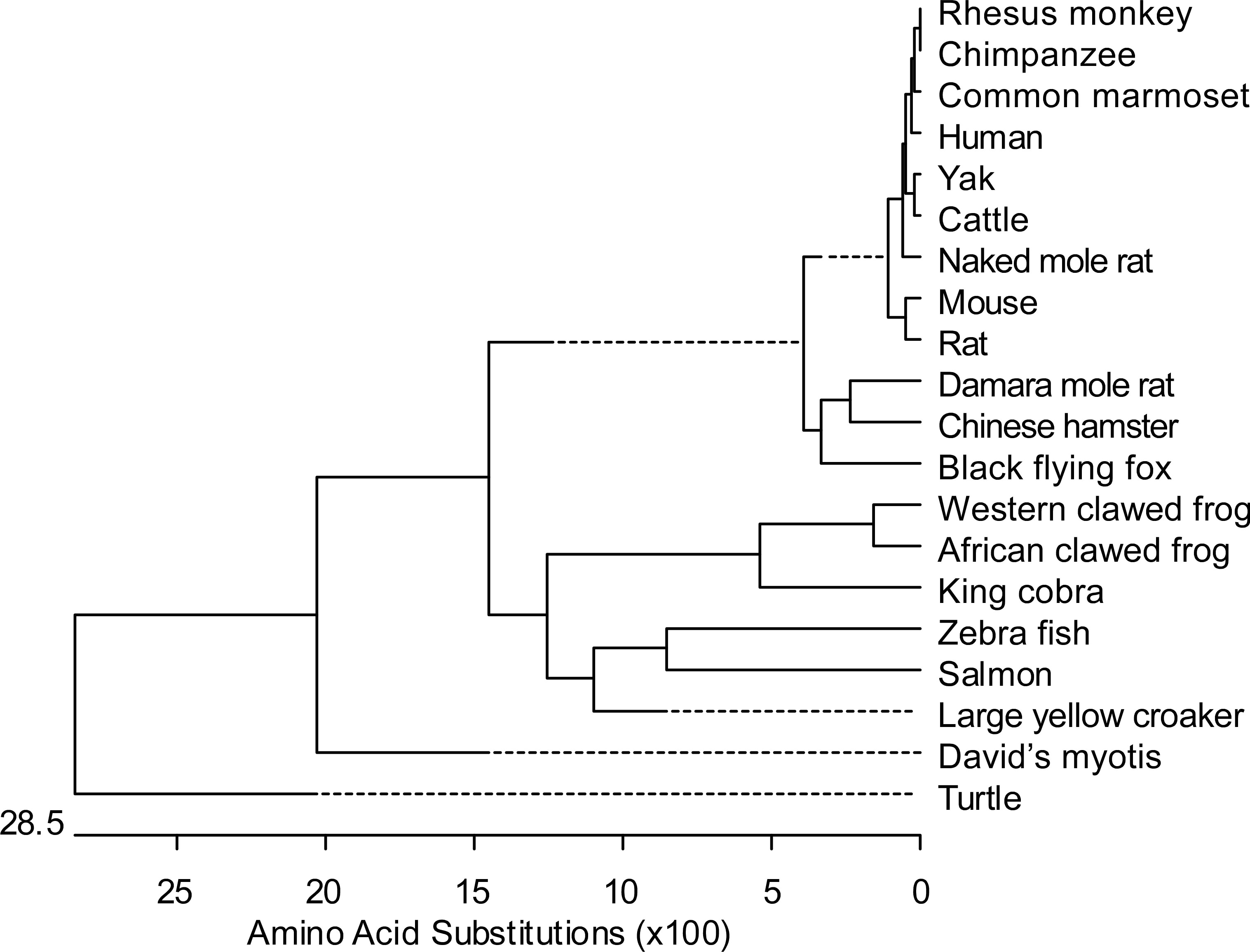 Calponin 3 tree